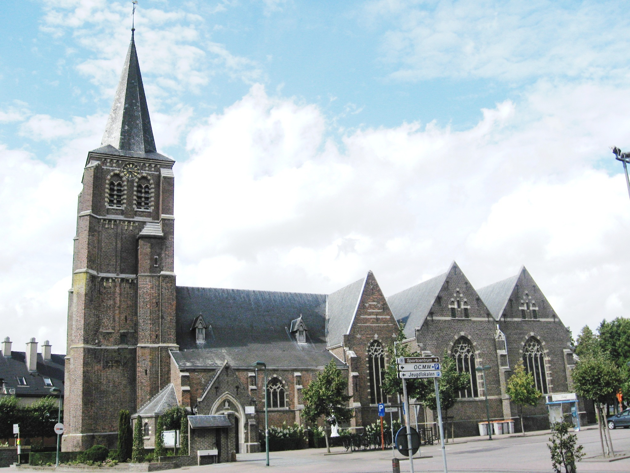 Church of Saint Martin in Meeuwen, Meeuwen-Gruitrode, Limburg, Belgium